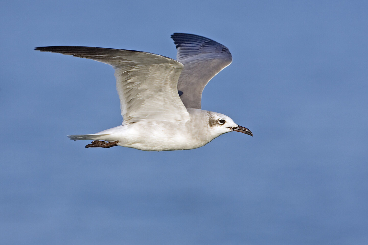 Laughing Gull, Fulton Harbour, Fulton, Texas